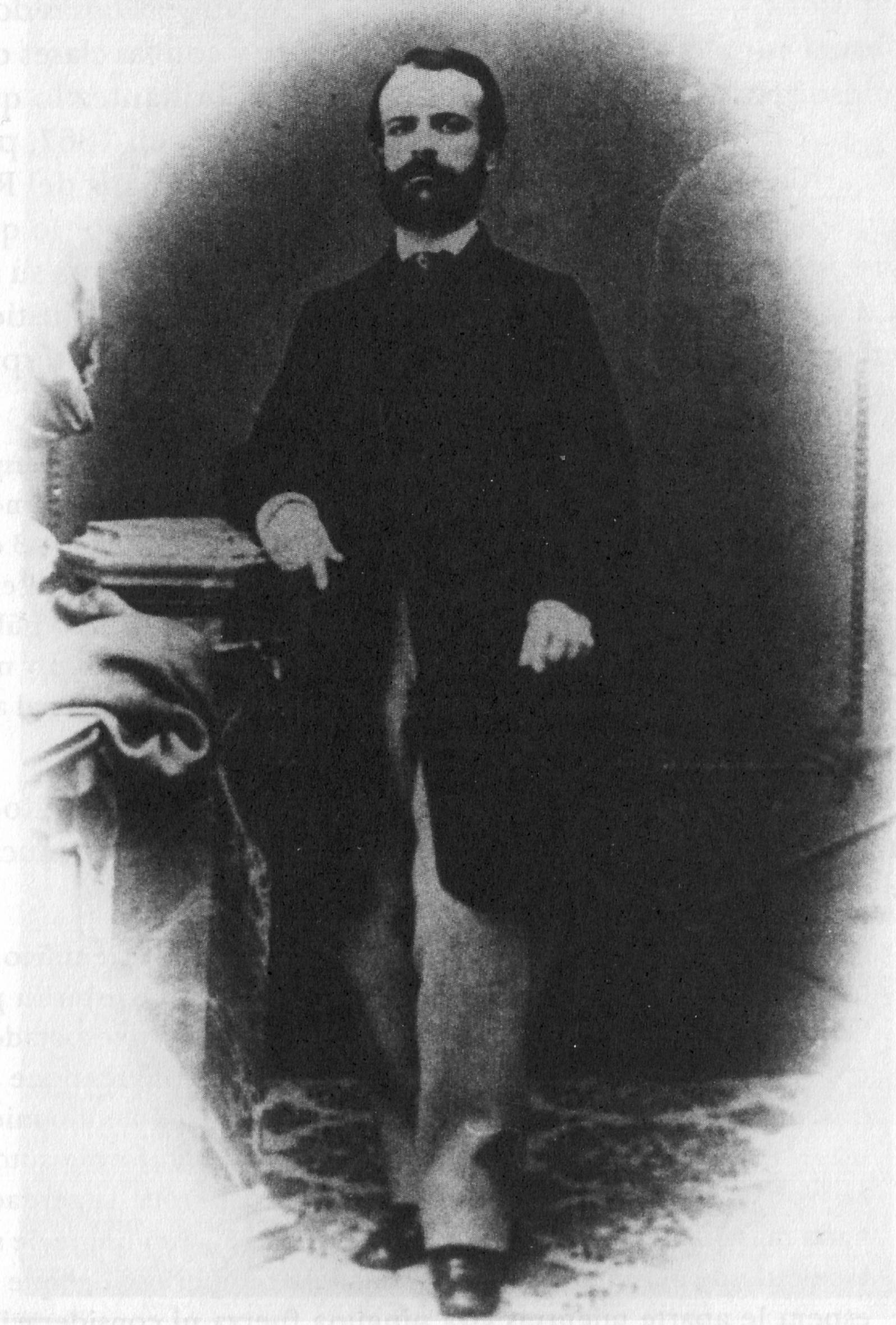 Portrait of Francisco Giner de los Ríos (1839-1915)